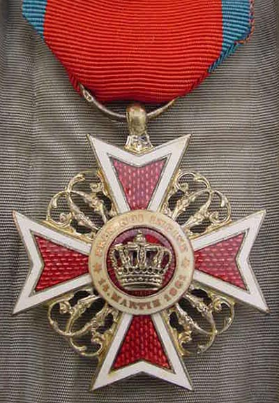 Orde van de Kroon van Roemenie